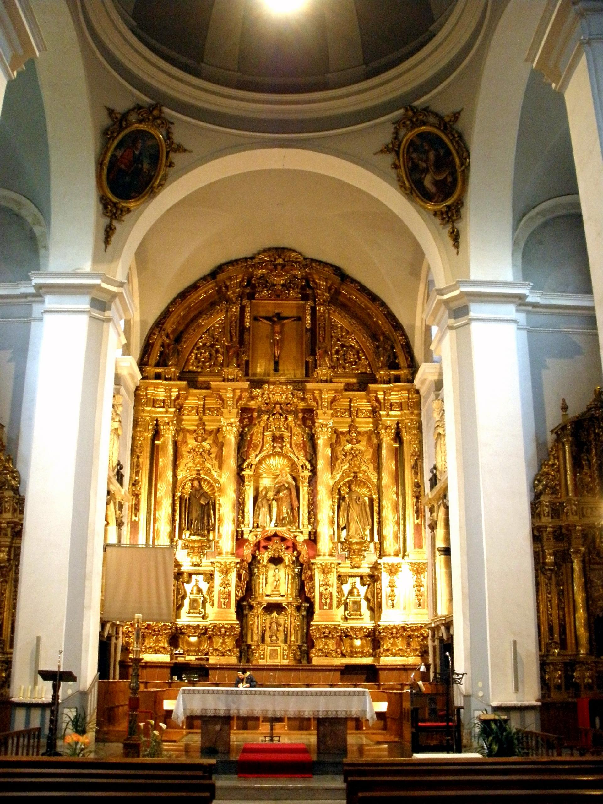 Monasterio de Santa Ana (MM Cistercienses) de Lazkao (Guipúzcoa, País Vasco, España)